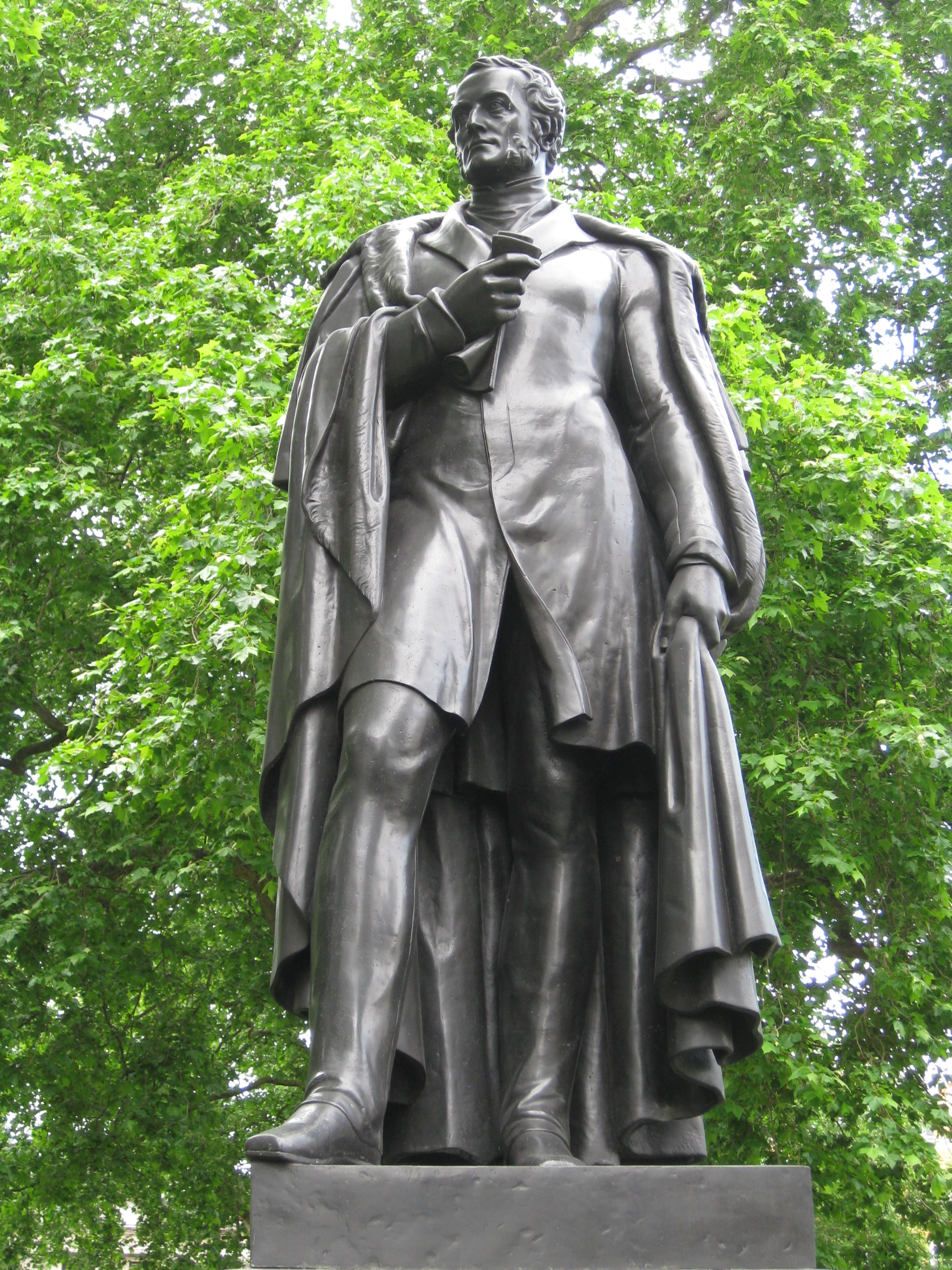 Statue of "William George Frederick Cavendish Bentick Died MDCCCXLVIII" (inscription) in Cavendish Square, London. Bronze by Thomas Campbell on stone plinth, erected 1848